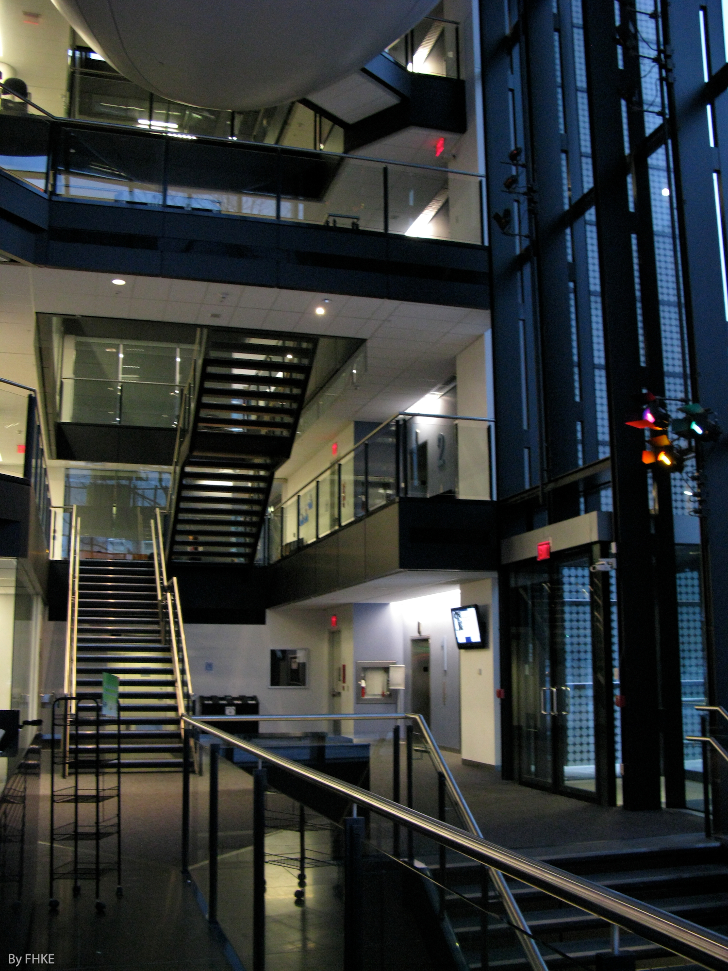 Leslie L. Dan Pharmacy Building - by Norman Foster